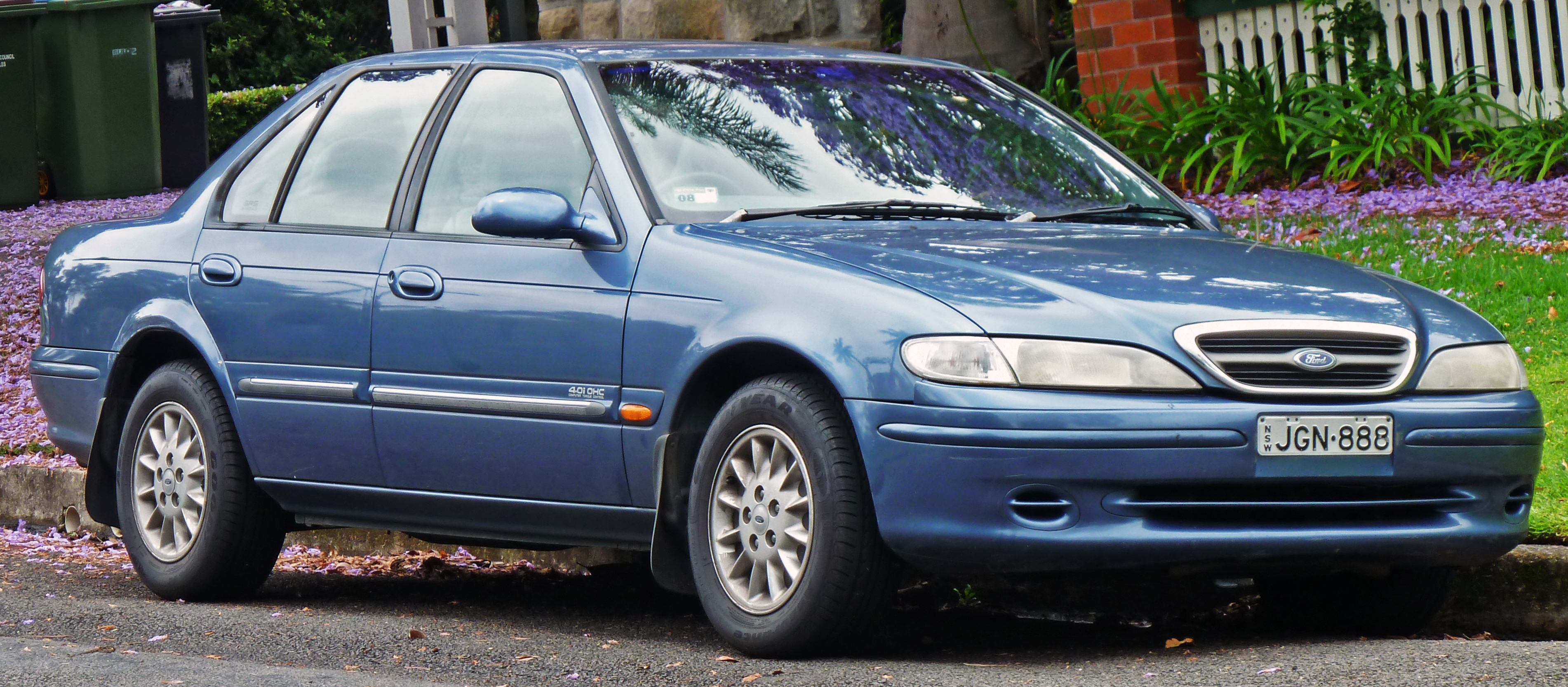 1996–1998 Ford EL Fairmont sedan. Photographed in Killara, New South Wales, Australia.